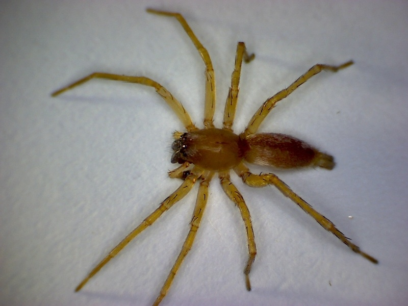 Clubiona terrestris, male. Location: The Netherlands - Middelburg - Binnenstad